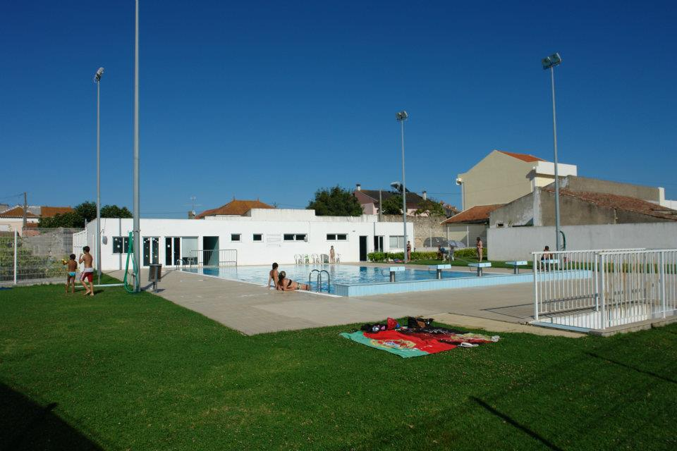 Piscina da Freguesia